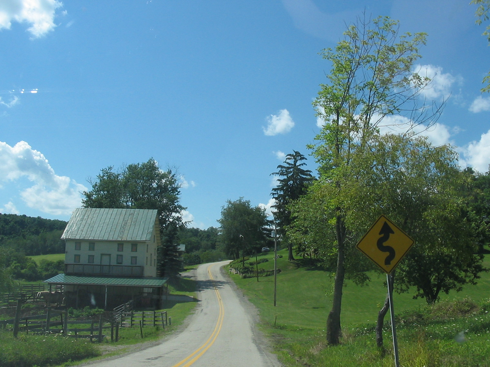 Image taken by me specifically for Wikipedia